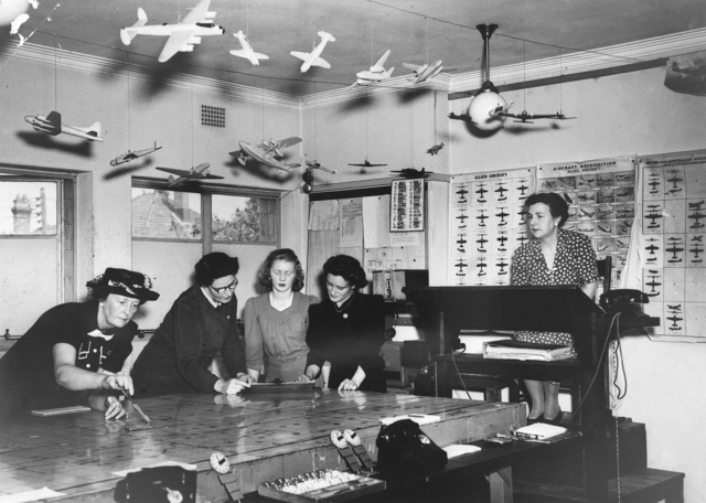 Australian War Memorial (AWM) catalog number P00024.001 Members of the Australian Volunteer Air Observer Corps at Orange, NSW in November 1944